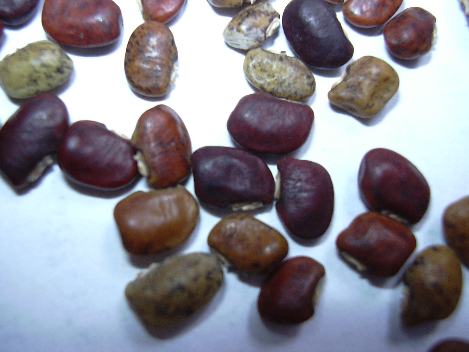 Vigna o-wahuensis (seeds). Location: Maui, Kanaio Beach